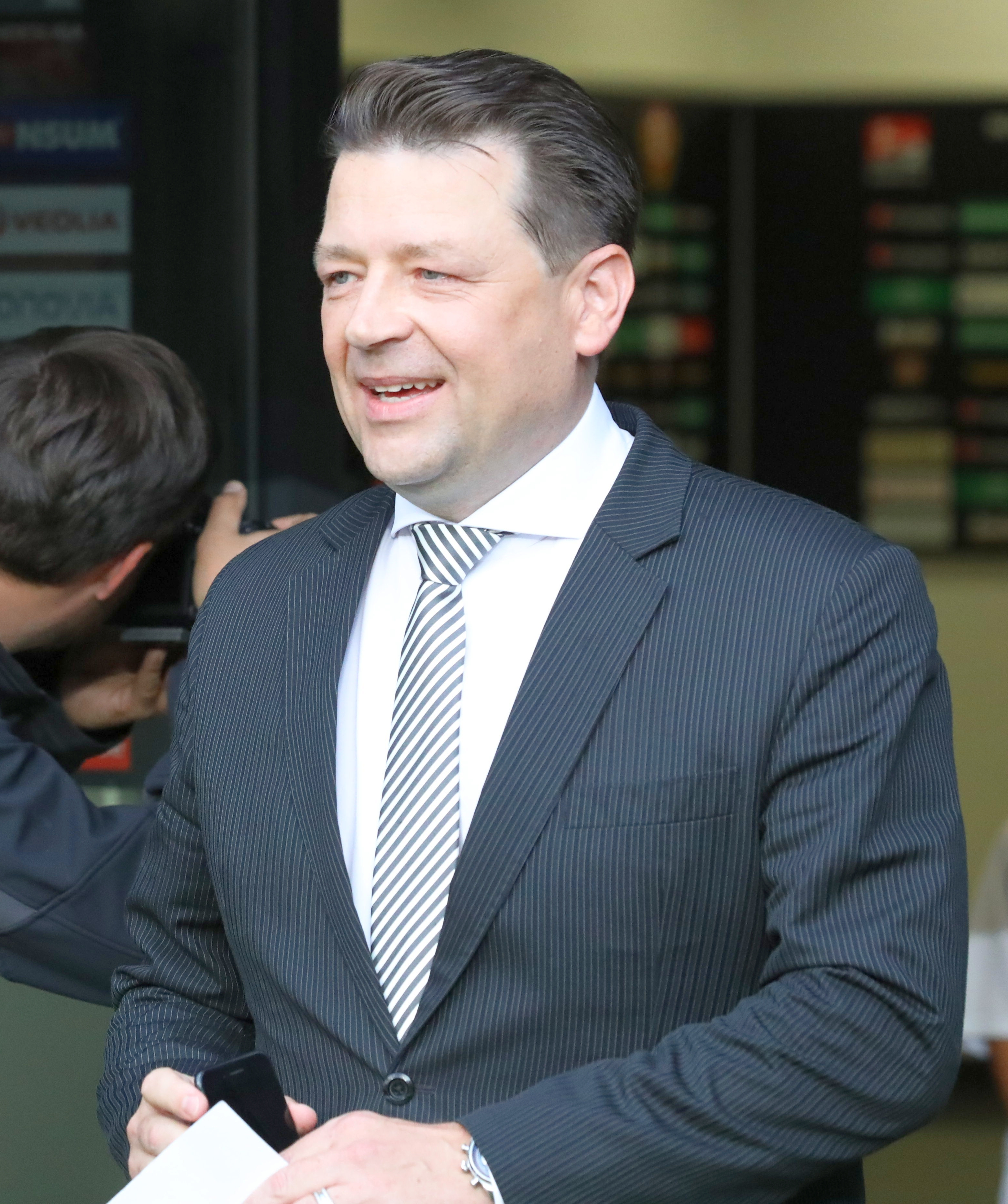 Test game, 17th July 2019: SG Dynamo Dresden vs. Paris Saint-Germain 1:6 (0:3)